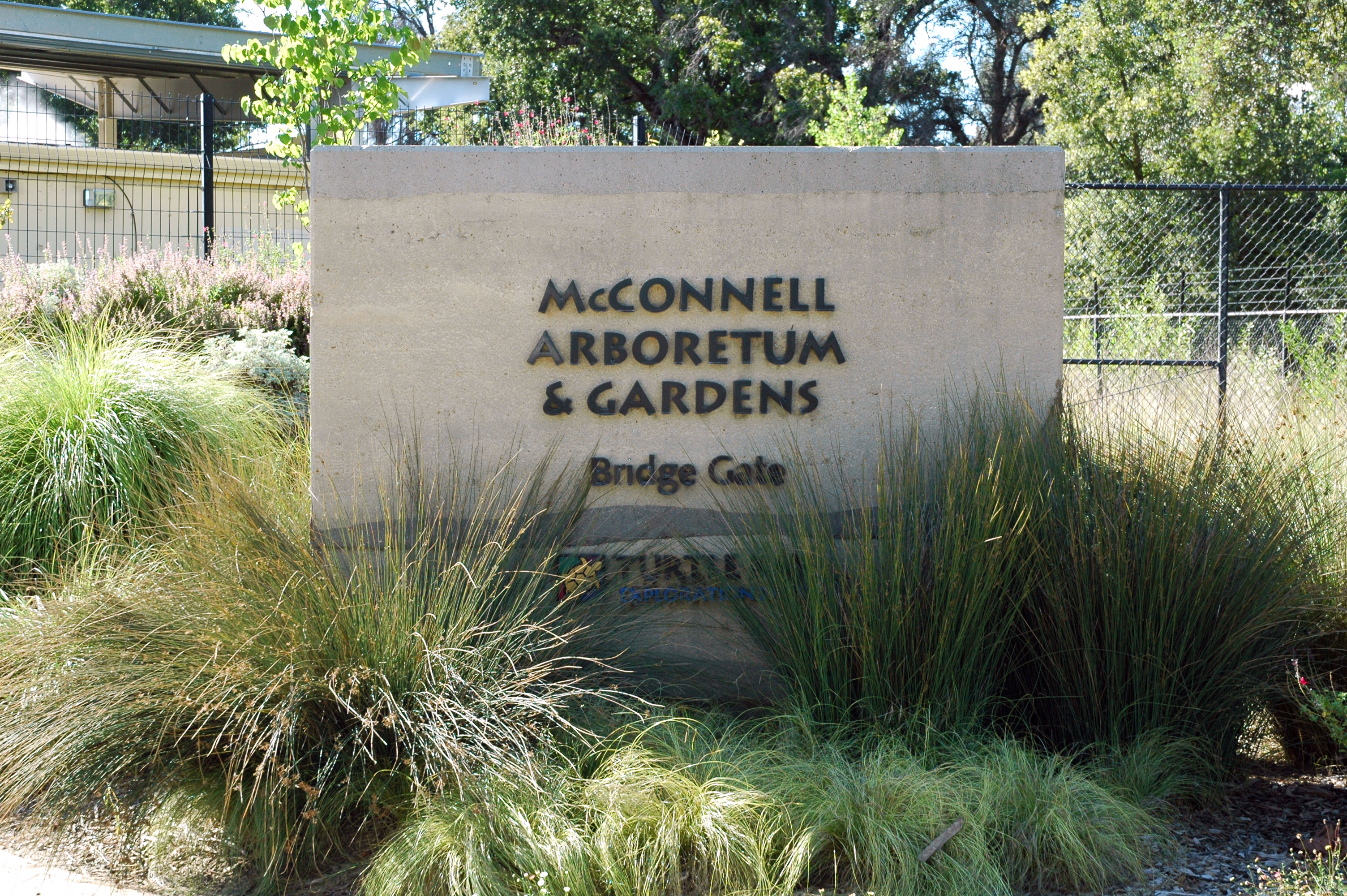 East entrance (Bridge Gate) of the McConnell Arboretum & Botanical Gardens at the Turtle Bay Exploration Park, Redding, California.